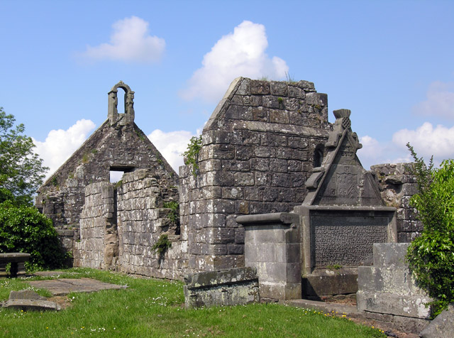 Carnock Church Ruin – South East Corner Although this church has been a Ruin for a long time, the pointing of the stonework is in very good condition. I wonder if it is being maintained as a ‘Ruin’. An excerpt from an 1861 Parochial Directory, viewable here . . . “The old Parish Church at Carnock was repaired in 1602, but is now in ruins, being roofless and overgrown with ivy. It was a small building, with only 240 sittings.”